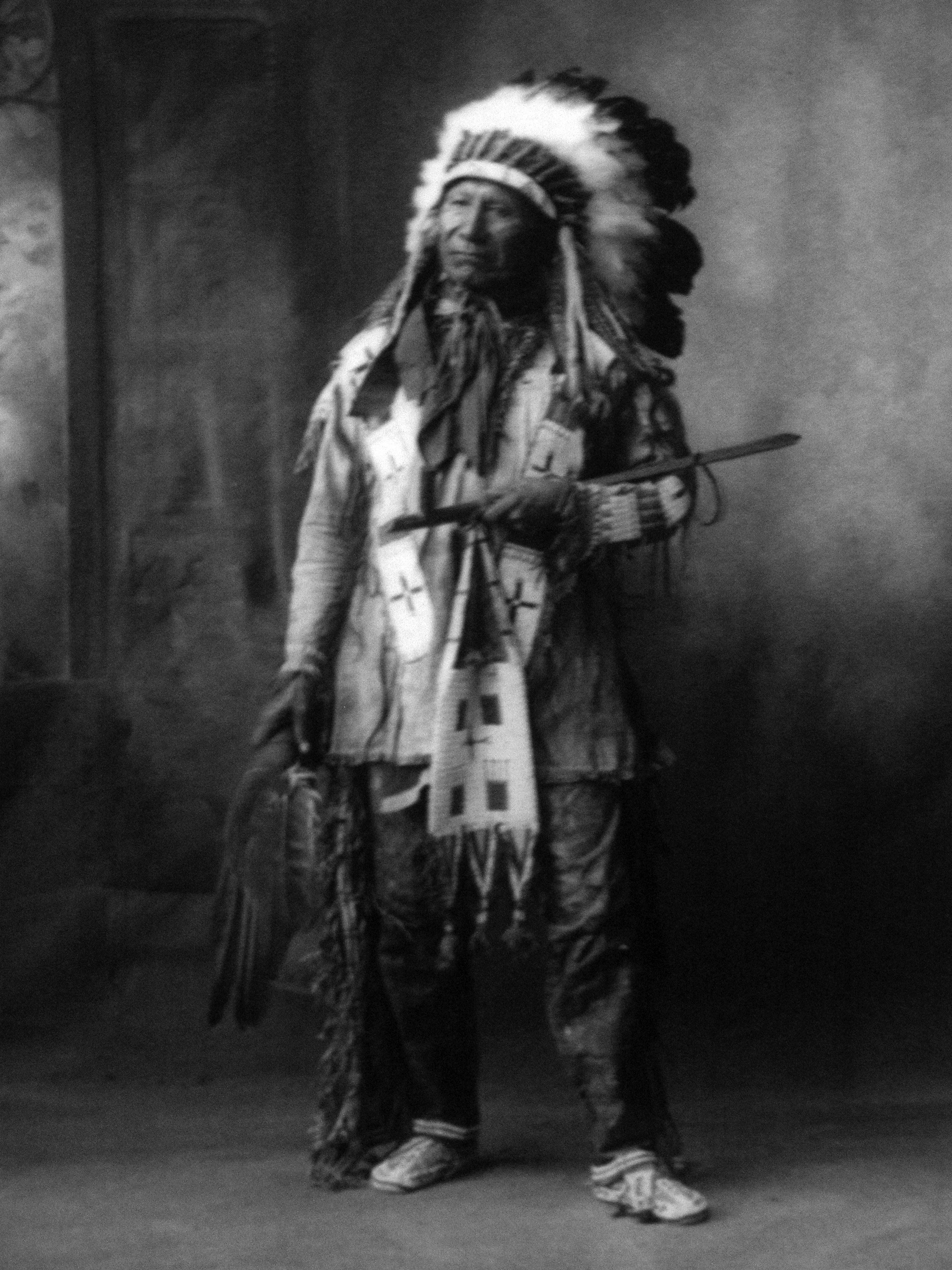 American Horse (1840-1908 Lakota-name: Wašíčuŋ Tȟašúŋke); Oglala Lakota Leader, 1898, NMAI Link